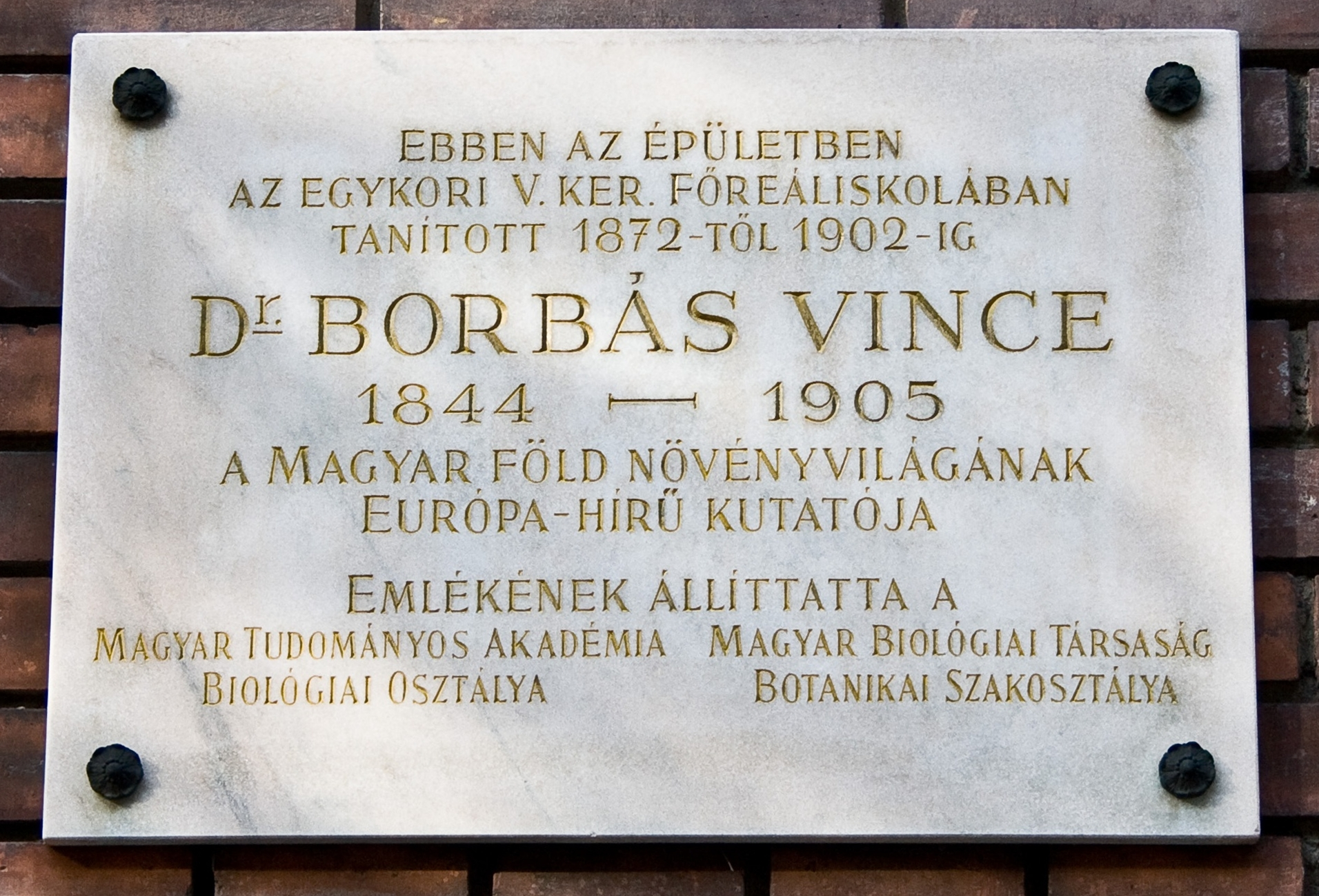 Vince Borbás commemorative plaque in Budapest District V, Markó Street No 18-20